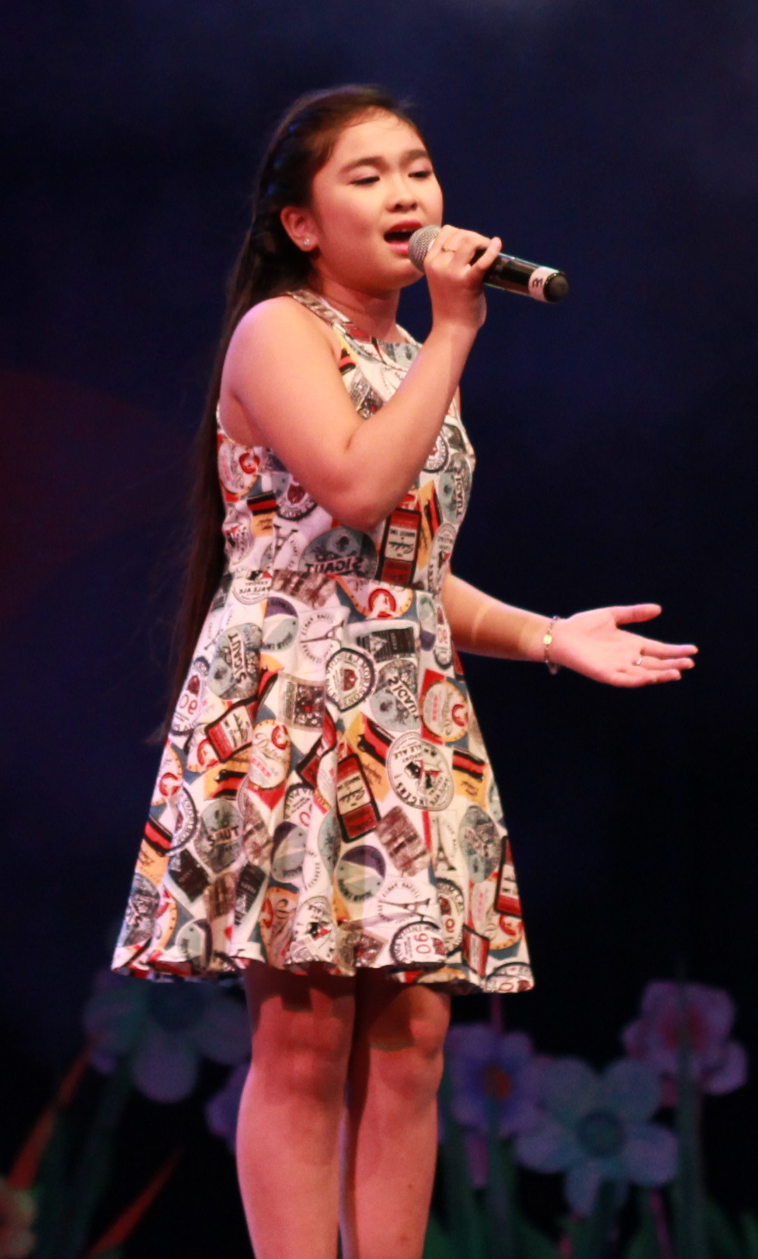 Nguyen Thien Nhan, winner of The Voice Kids of Vietnam Season 2, giving a performance.